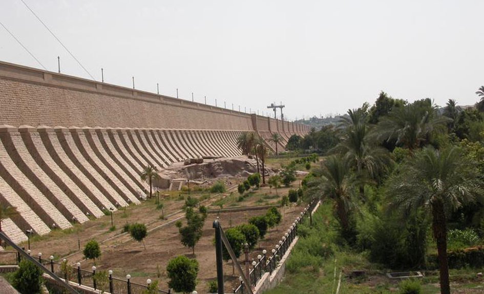 Aswan Low Dam